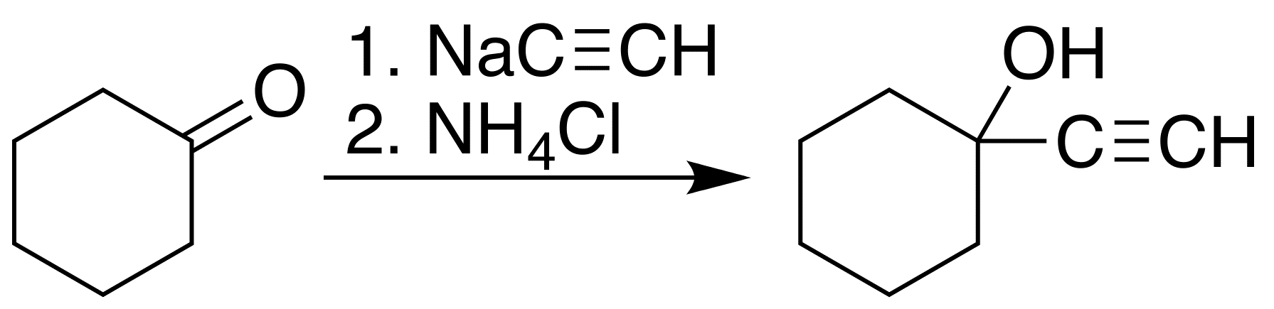 Skeletal diagram for reaction of cyclohexanone with sodium acetylide followed by protonation of the alkoxide using ammonium chloride